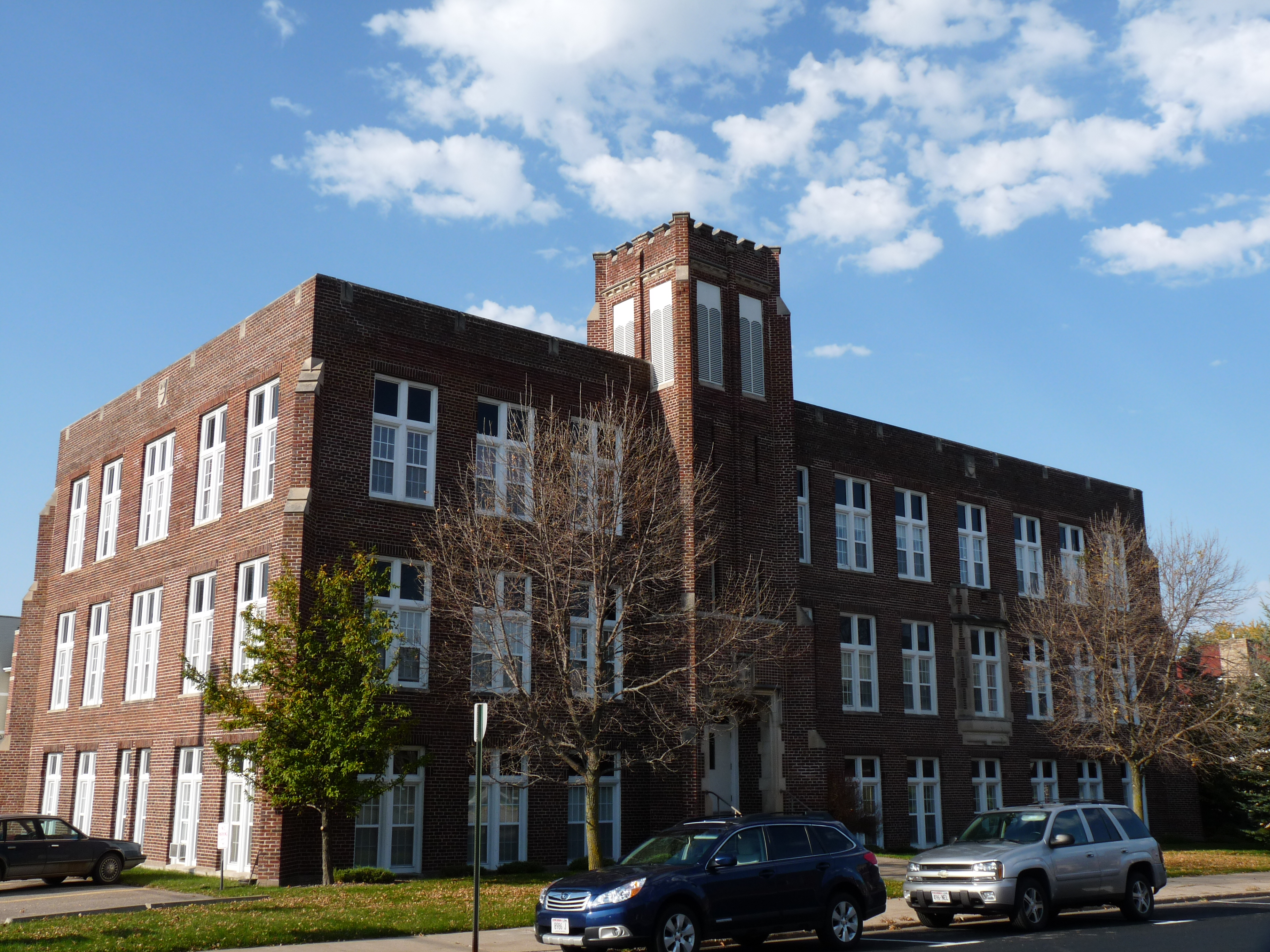 This building in Marshfield, Wisconsin was completed in 1919 as Willard D. Purdy Junior High. It's an example of collegiate gothic architecture, designed by Childs and Smith. It's named for a WWI soldier from Marshfield who threw himself on a grenade to save his comrades. The building was later used as a technical school, and is now a retirement home.